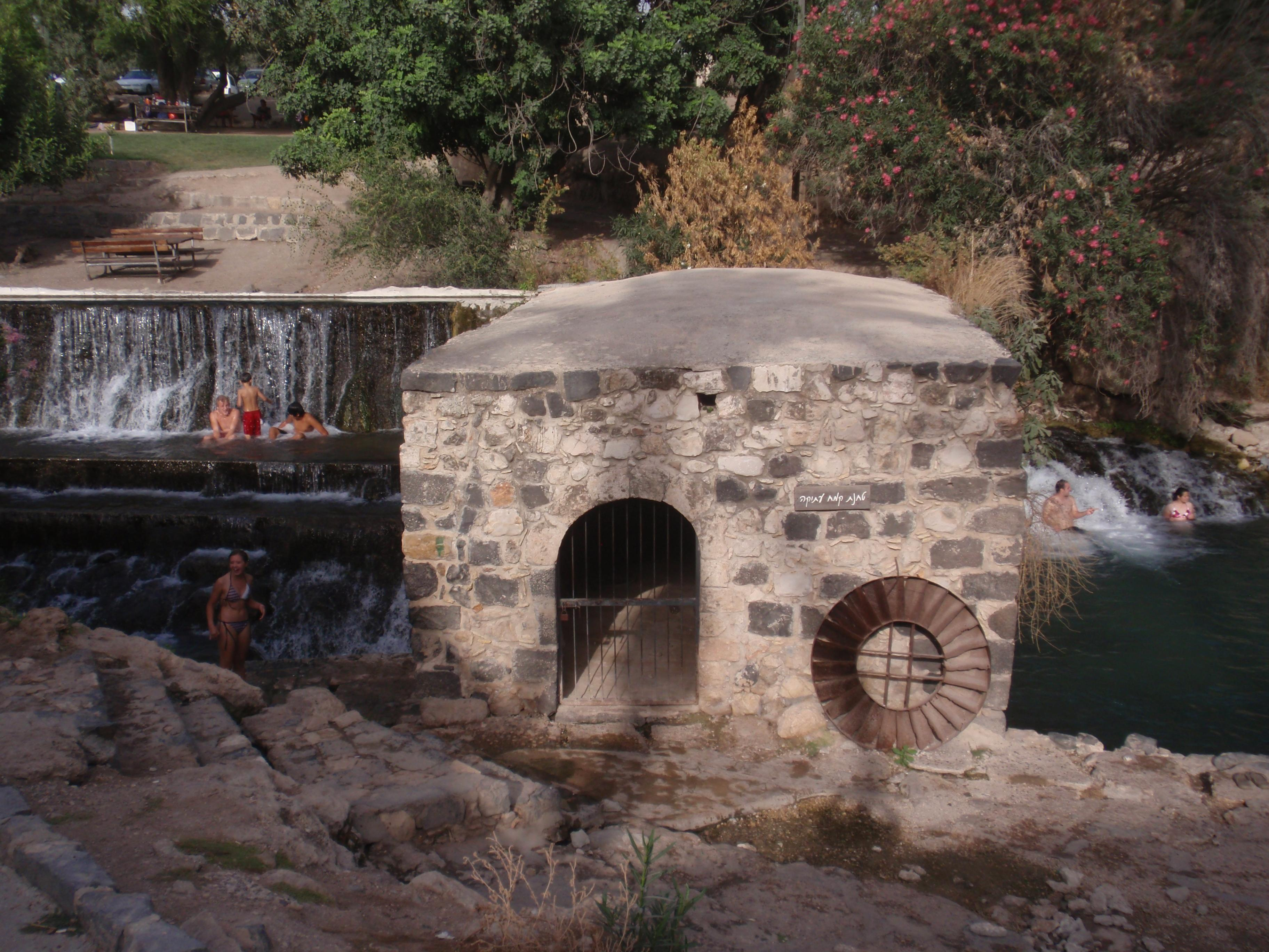 The reconstructed gristmill in Gan ha-Shlosha, Israel